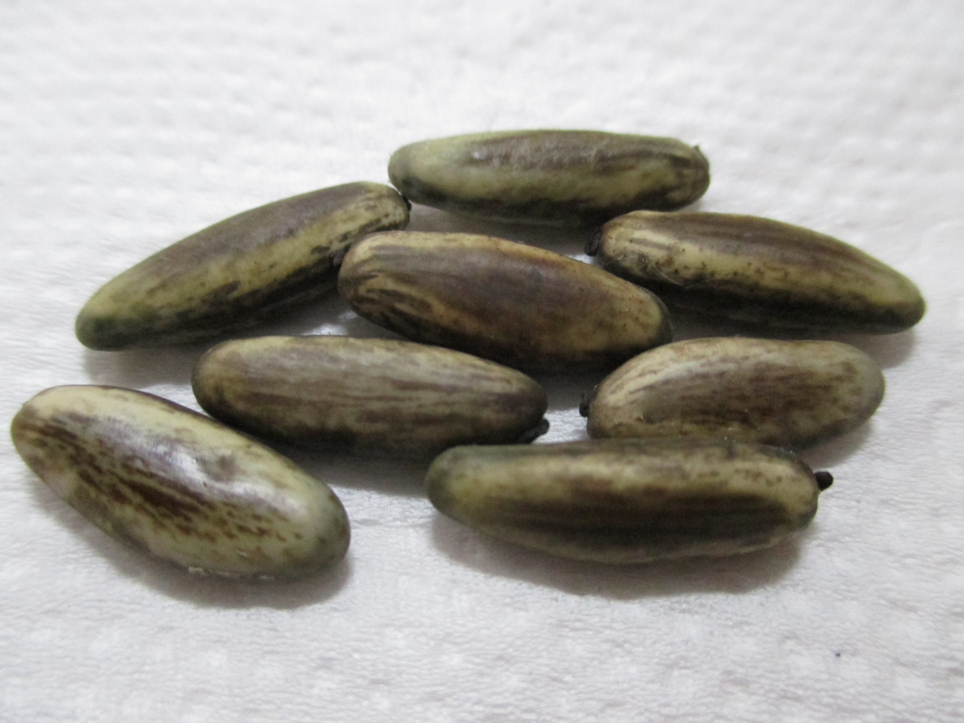 Royal Poinciana seeds